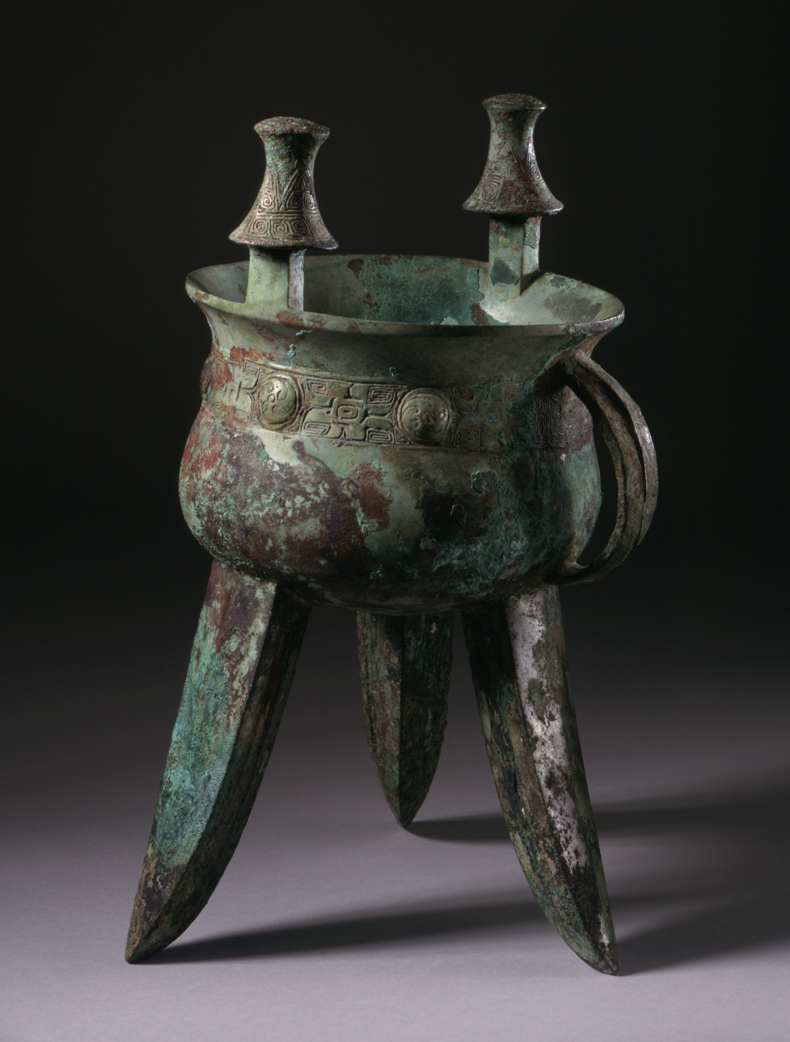 Tools and Equipment; warmers Cast bronze 7 7/8 x 7 3/4 x 7 3/8 in. (20 x 19.69 x 18.73 cm) Gift of Mr. and Mrs. Eric Lidow (M.78.123.1) Chinese Art